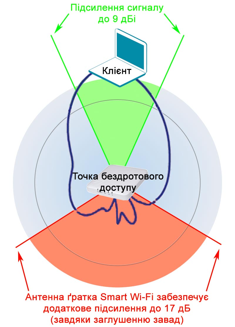 Adaptive Antenna Technology (BeamFlex)